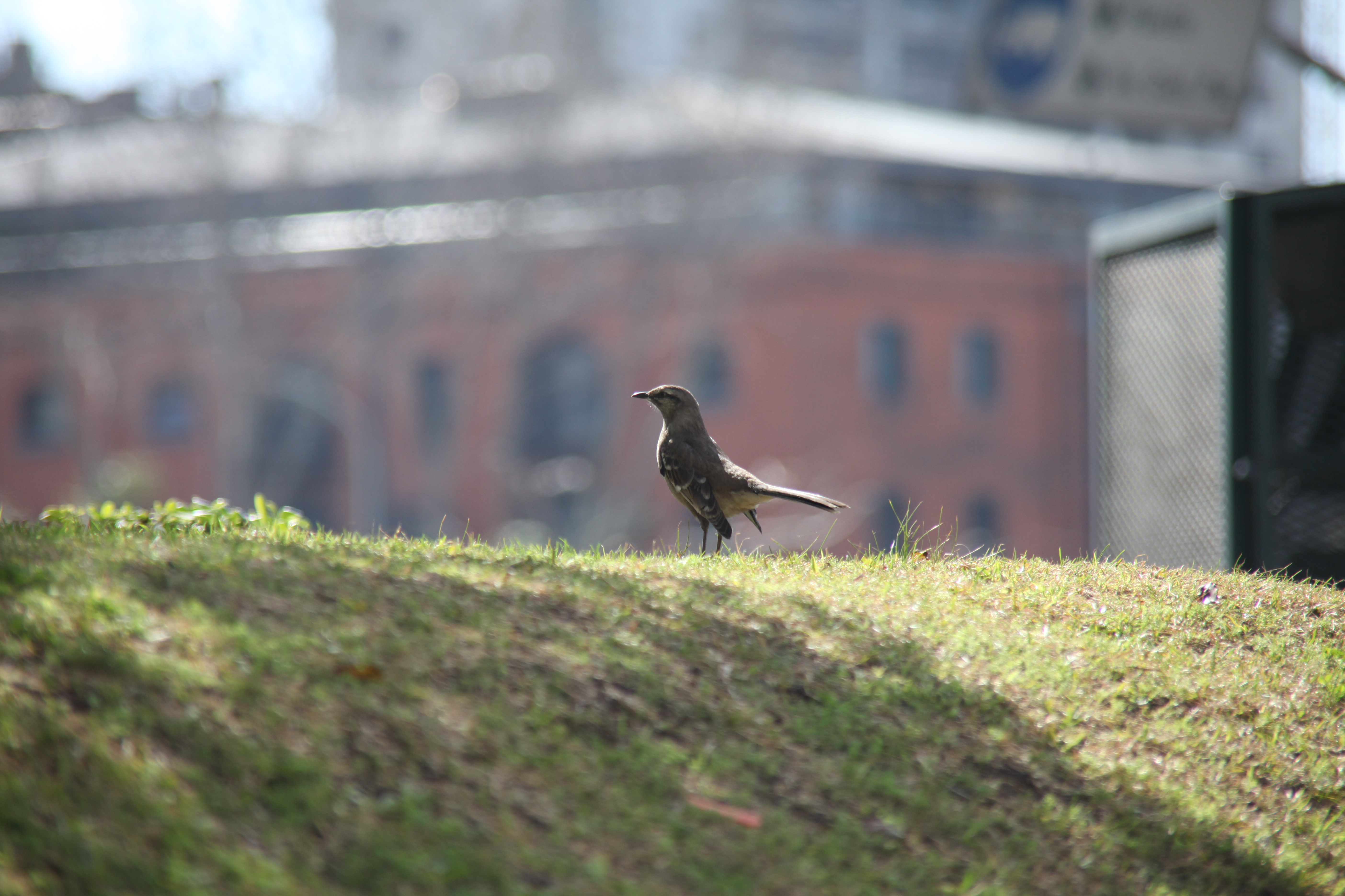 unknown (Mimus patagonicus?)